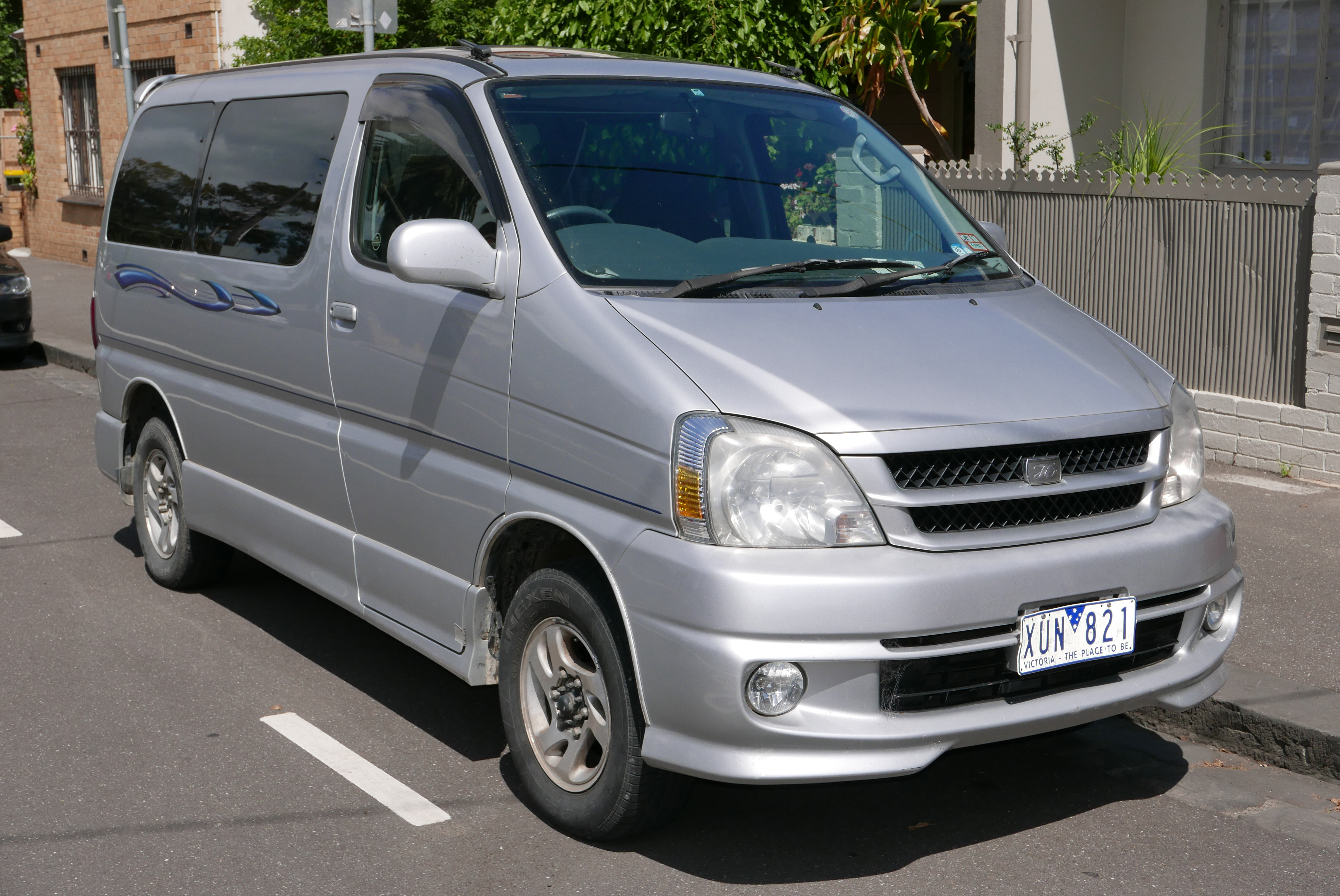 2000 Toyota Touring HiAce (KCH46W) V package van. This is a grey import from Japan, complianced for Australia in October 2009. Photographed in Collingwood, Victoria, Australia. Vehicle registration enquiry results Jurisdiction Victoria Registration XUN821 Chassis code 6U900KCH460018075 Engine code 1KZ0765559 Compliance date 2009-10 Year of manufacture 2000